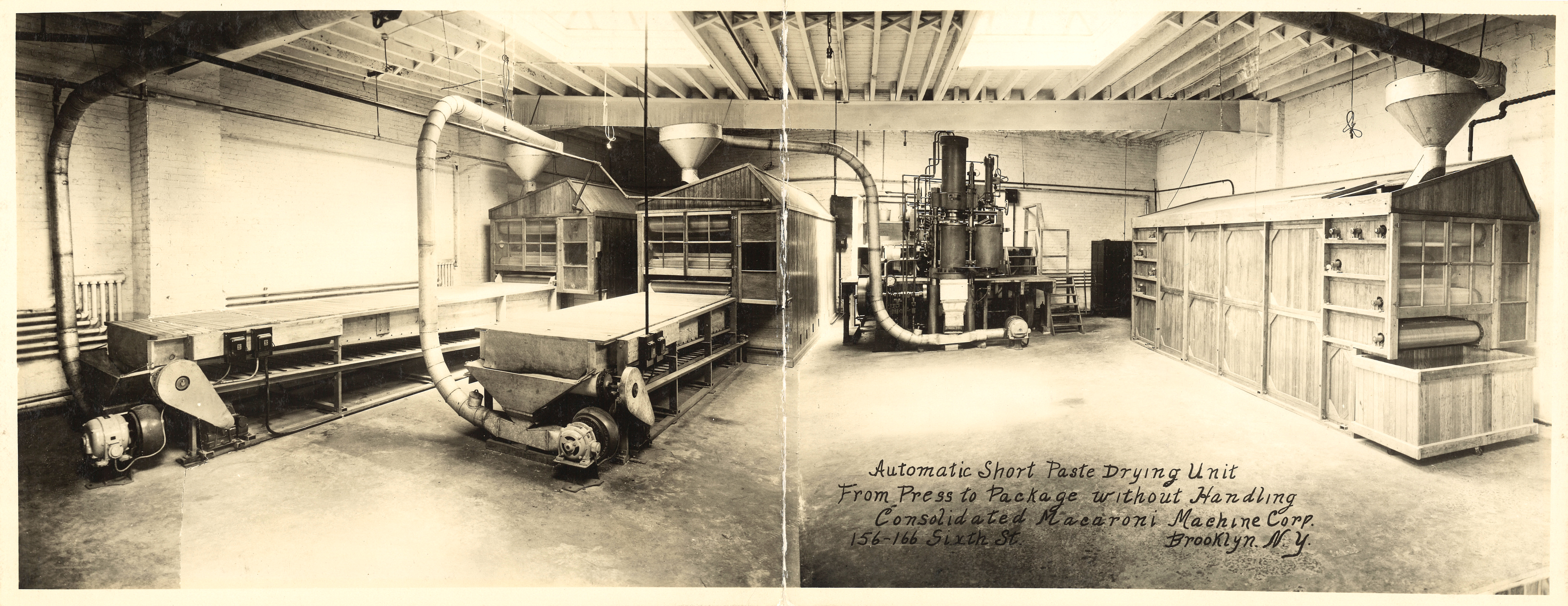 Automatic production machine for producing short cut alimentary paste products, such as pasta. This machine consists of a hydraulic press and drying units. This dry pasta line was one of the first automatic systems for producing pasta with near continuous production. Built by Consolidated Macaroni Machine Corporation, Brooklyn, New York.